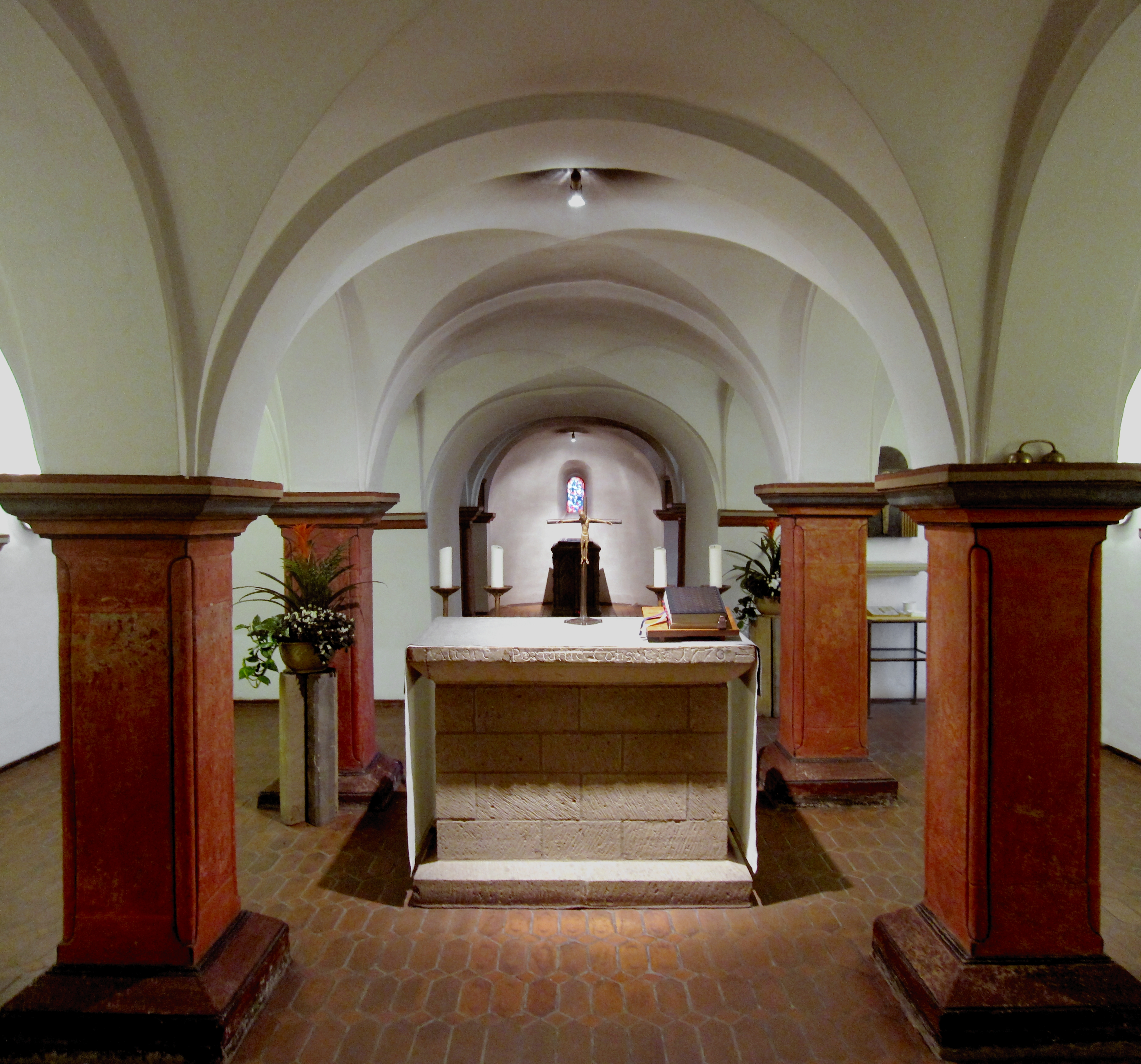 Essen Minster.